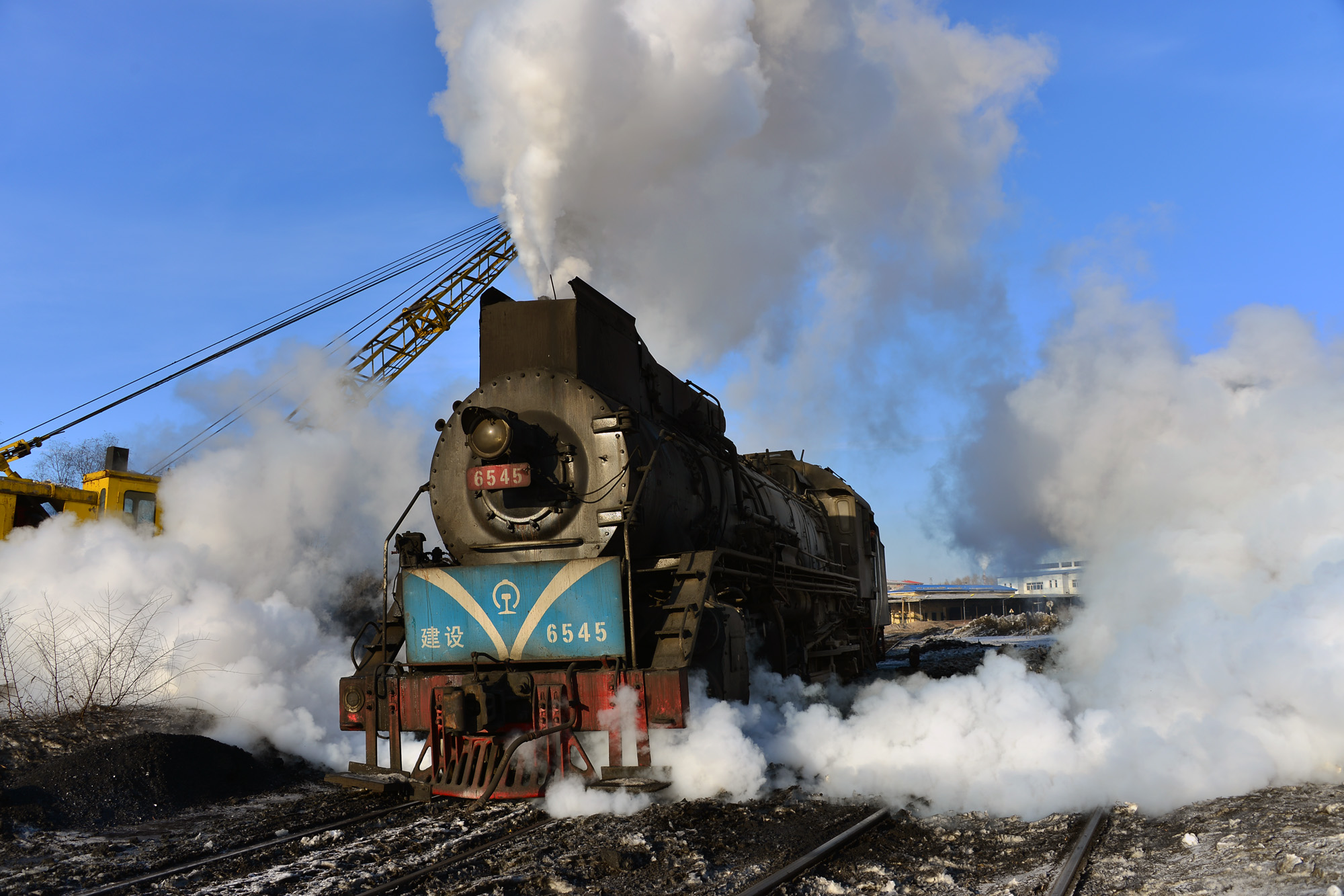 巡道工出品 photo by Xundaogong——富拉尔基第二发电厂 建设型蒸汽机车 The second fire electric factory of Fularji Qiqihar，steam train